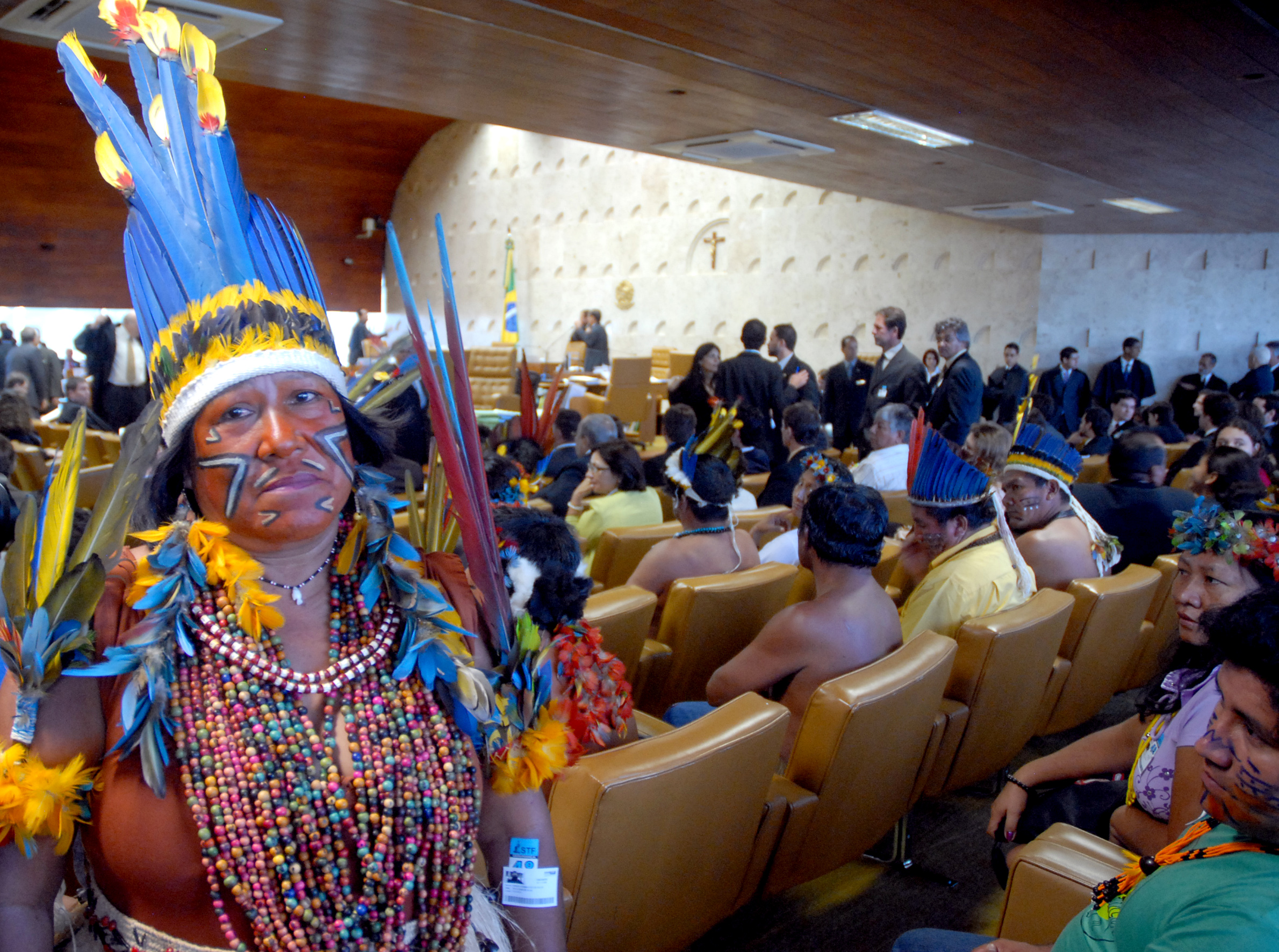 Brasilia - Indigenous representatives during the trial in the Supreme Court (STF) on the demarcation of indigenous land Raposa Serra do Sol, Roraima.